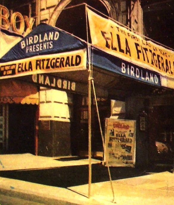 Photo of the entrance at Birdland from a postcard.